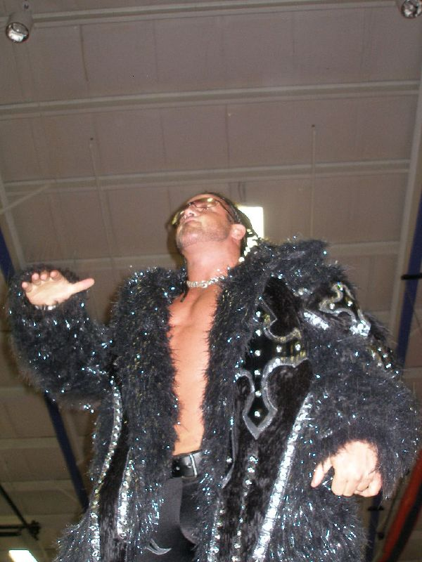 Birch wrestling on the independent circuit.